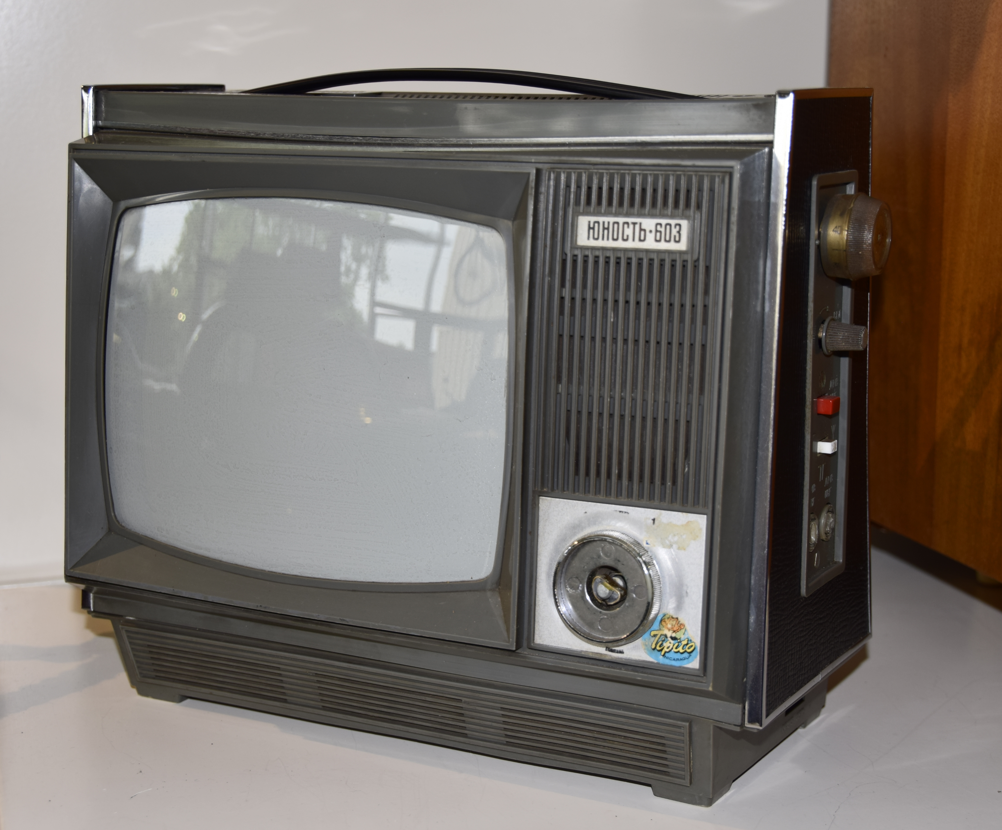 A Yunost 603 portable television set from the Soviet Union built in the 1970ies.